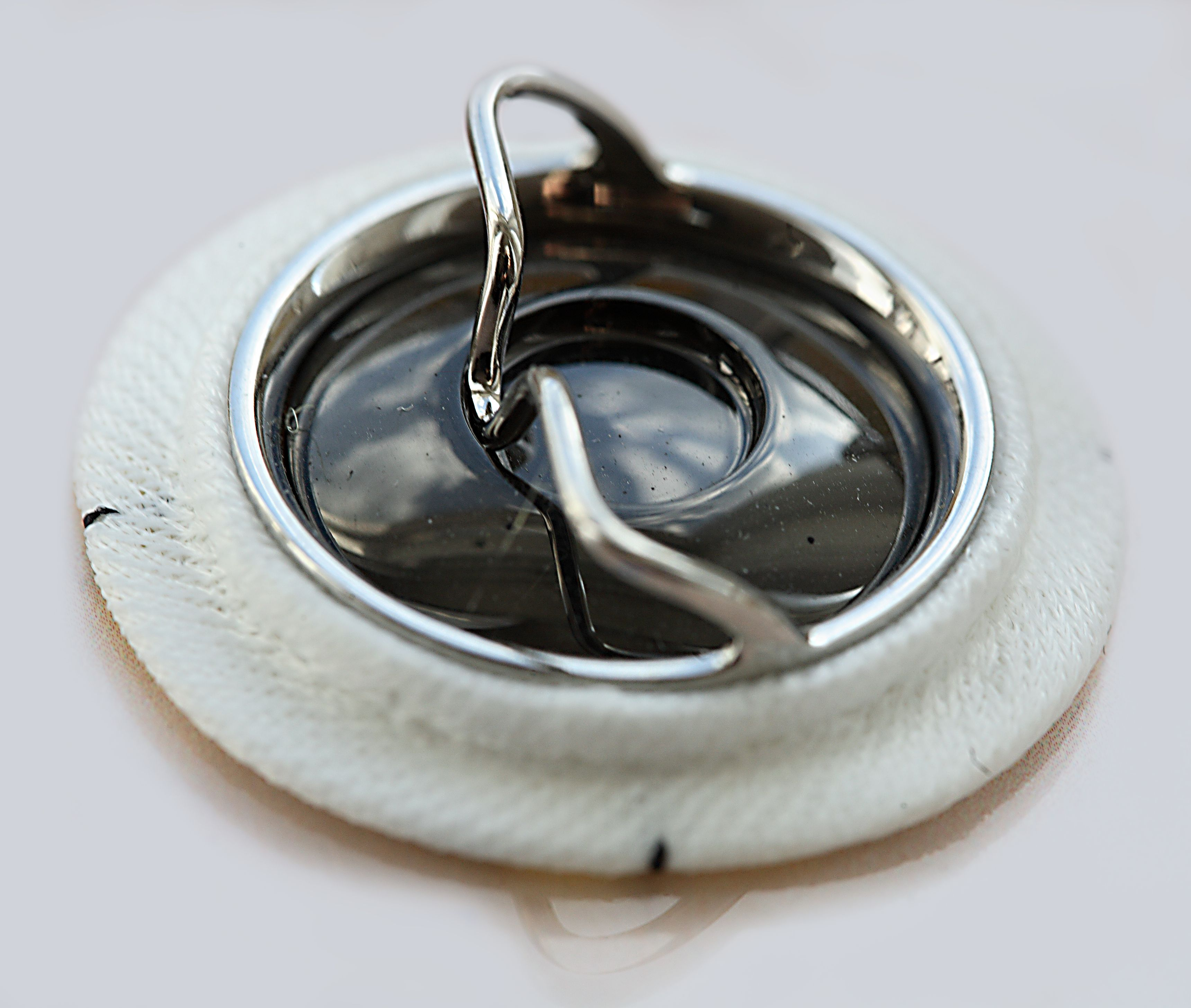 LIKC-2 tilting disc heart valve prosthesis